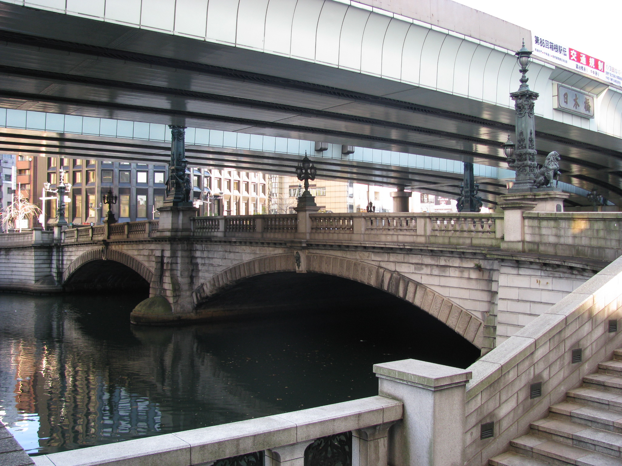 Nihonbashi is bridge located in Chuo, Tokyo, Japan.